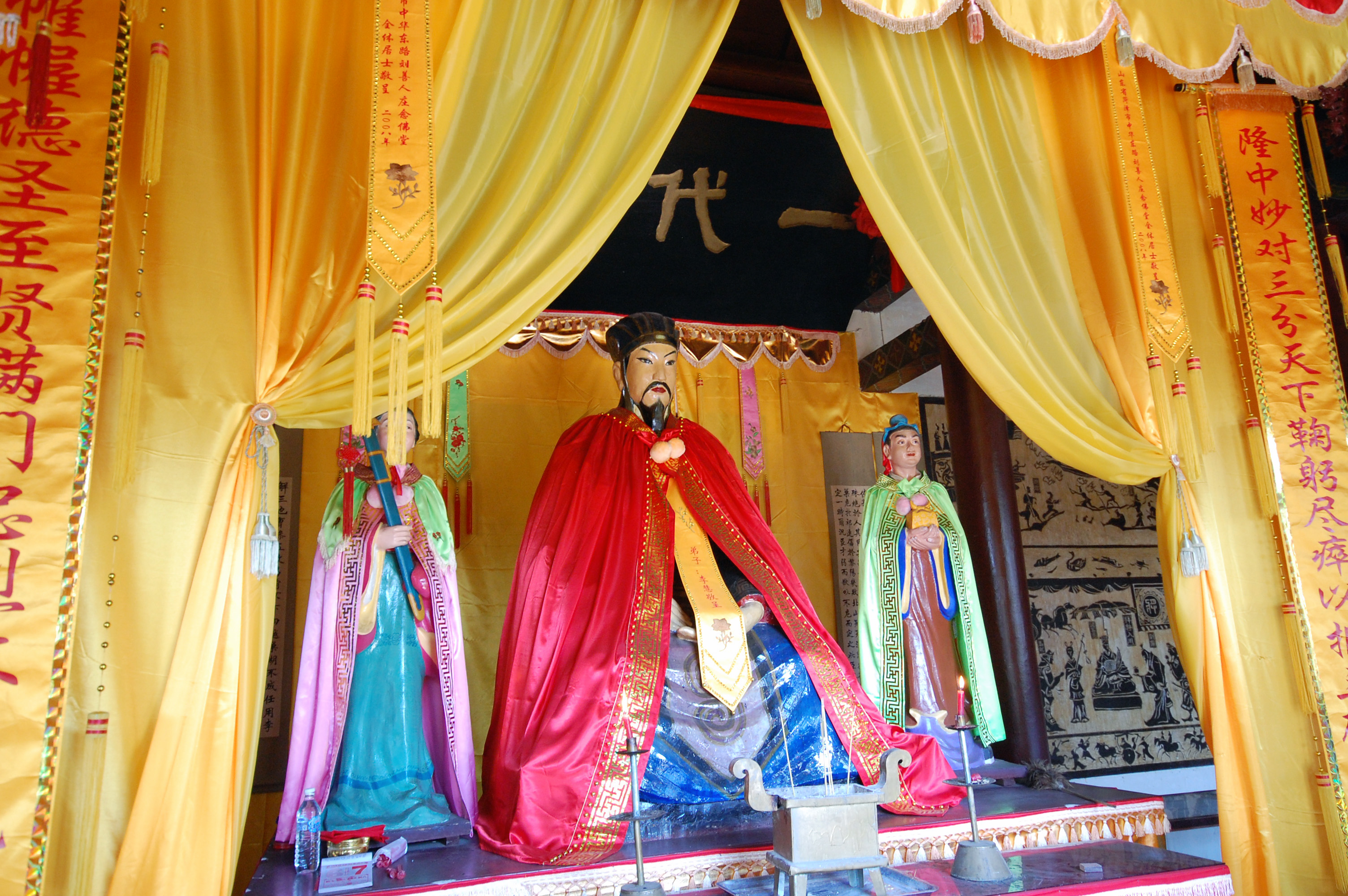 Altar to Zhuge Liang in Yinan, Shandong, China.